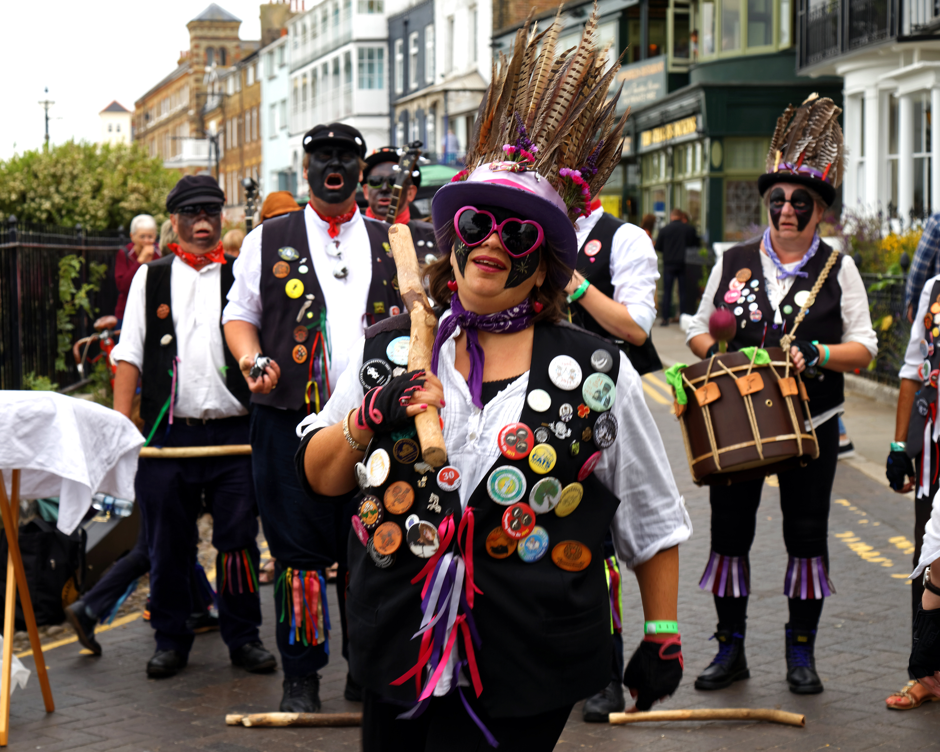 Morris dancers, as part of Broadstairs Folk Week, on Victoria Parade in Broadstairs, Kent, England.Mobile device view: Wikimedia (as at 2018) makes it difficult to view photos related to this image, so to see its most relevant allied group, click: Broadstairs.To see the subject galleries for this particular author's photos, please click: photos by Acabashi. You can add a beta click-through button to 'categories' at the very bottom of photo-pages you view by going to settings... three-bar icon top left.Desktop view: Wikimedia (as at 2018) makes it difficult to immediately view the helpful category links where you can find images to which this one is relevant in a variety of ways; for these go to the very bottom of this page.This image is one of a series of date and/or subject allied consecutive photographs kept in progression or location by file name number and/or time marking.Camera: Canon EOS 6D with Canon EF 24-105mm F4L IS USM lens.Software: RAW file lens-corrected, optimized, perhaps cropped, and converted to JPEG with DxO OpticsPro 11 Elite, and likely further optimized with Adobe Photoshop CS2.